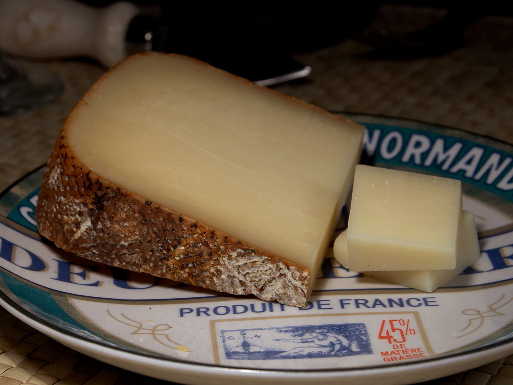 Abbaye de Belloc Cheese. Photographer: Jon Sullivan